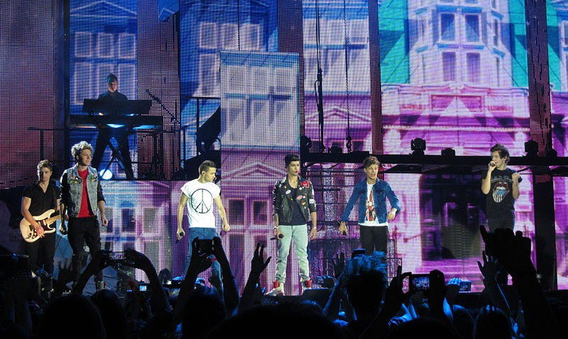 One Direction, Scottish Exhibition and Conference Centre (SECC), Glasgow, Wednesday 27 February 2013, Take Me Home Tour